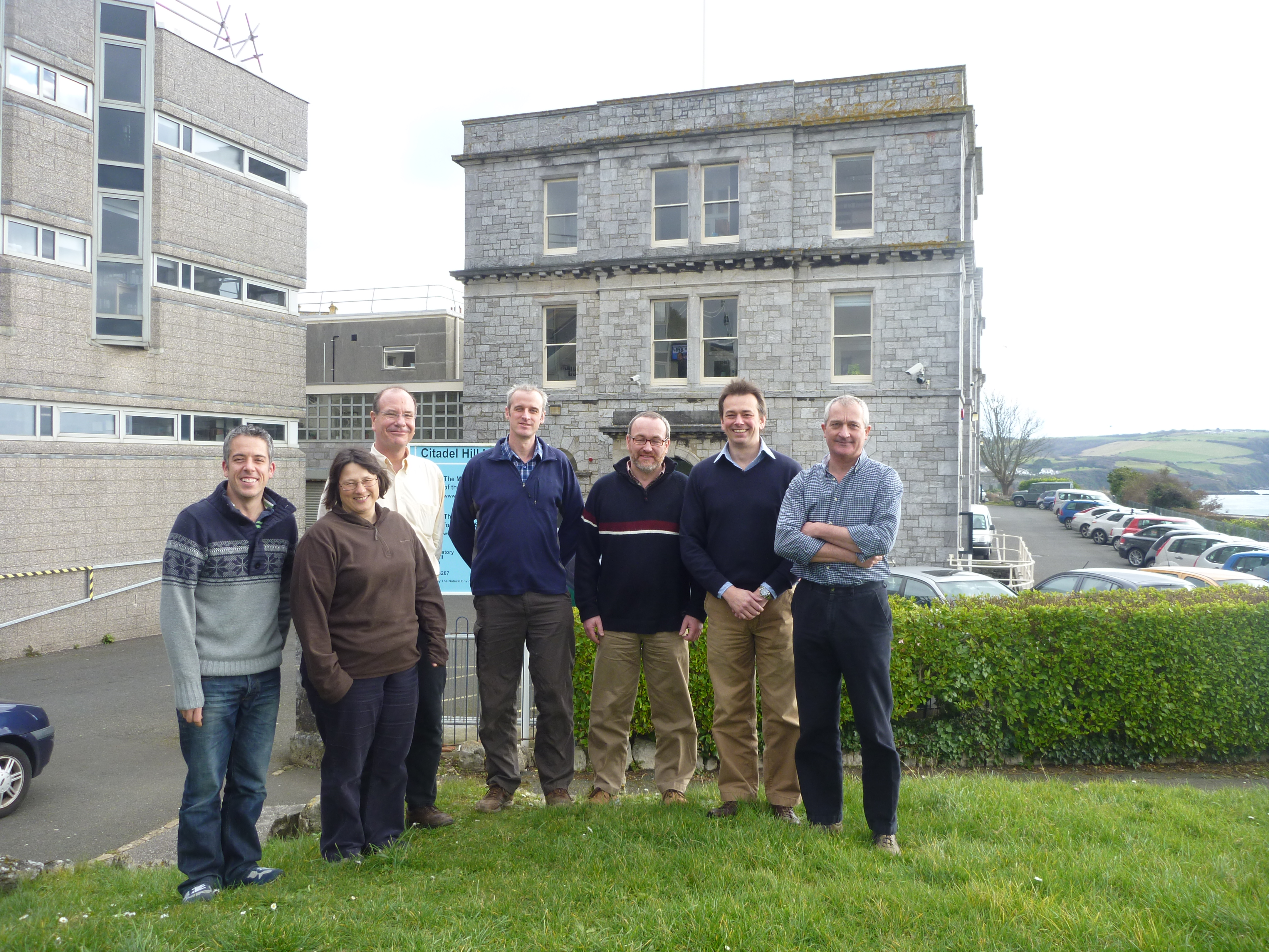 Left to right: Dr Matt Witt (UoE), Dr Mel Austin (PML), Dr Dan Conley (UoP), Dr Stephen Cotterell (MBA), Dr Michael Bell (ICT), Prefessor David Sims (MBA), Dr Julian Metcalf (CEFAS).